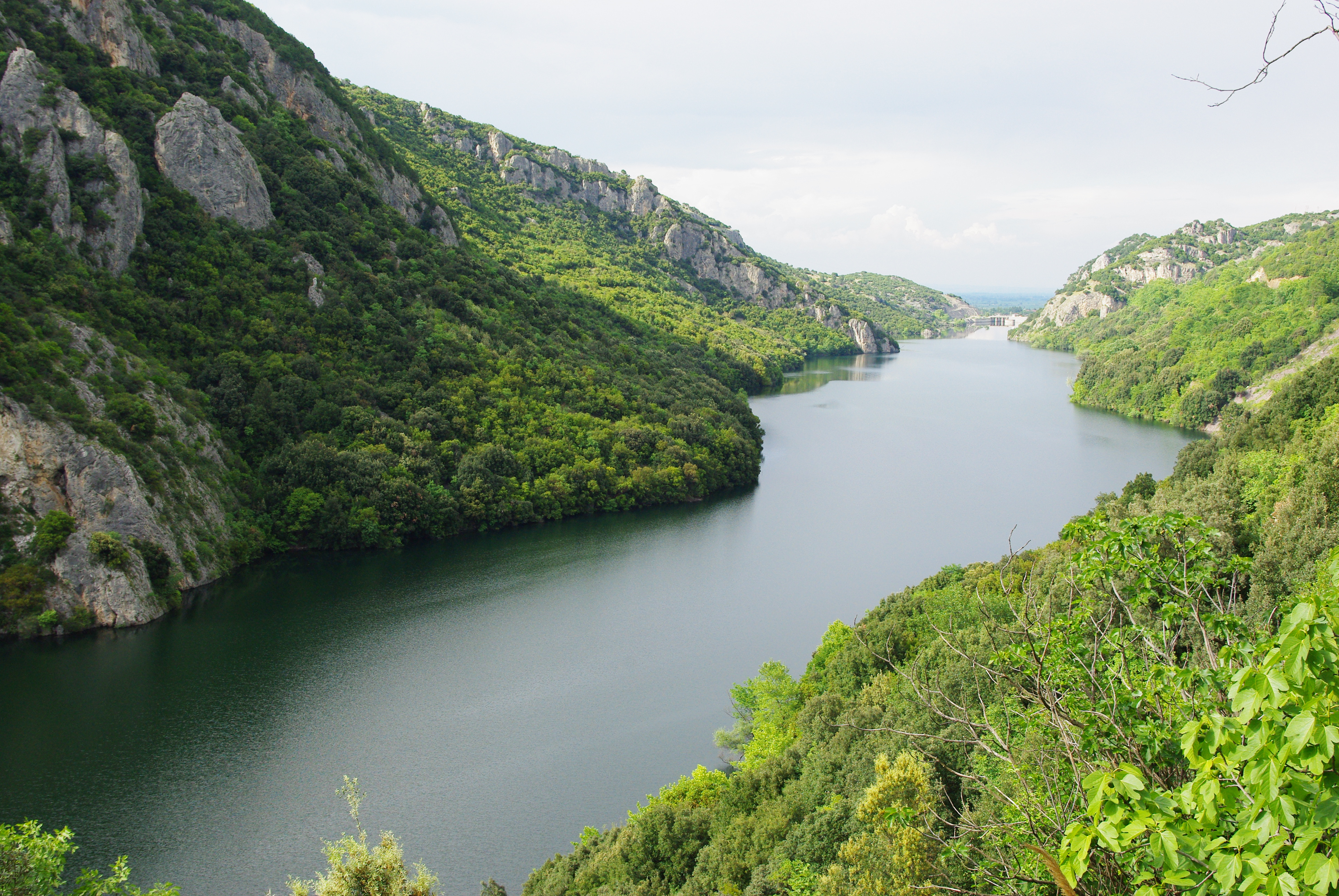 Aliakmon river This is a photography of Natura 2000 protected area with ID GR1210002